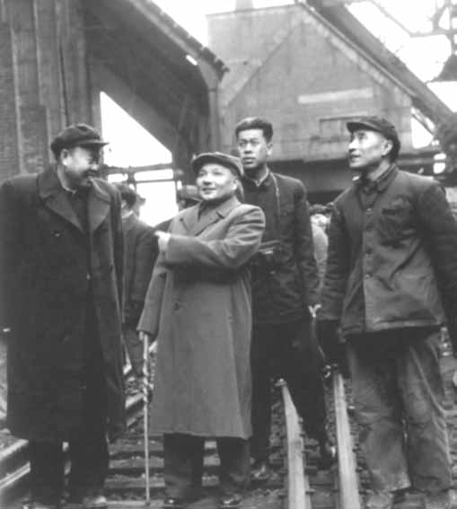 Deng Xiaoping visited Wuhan Factory in 1958 Dec.